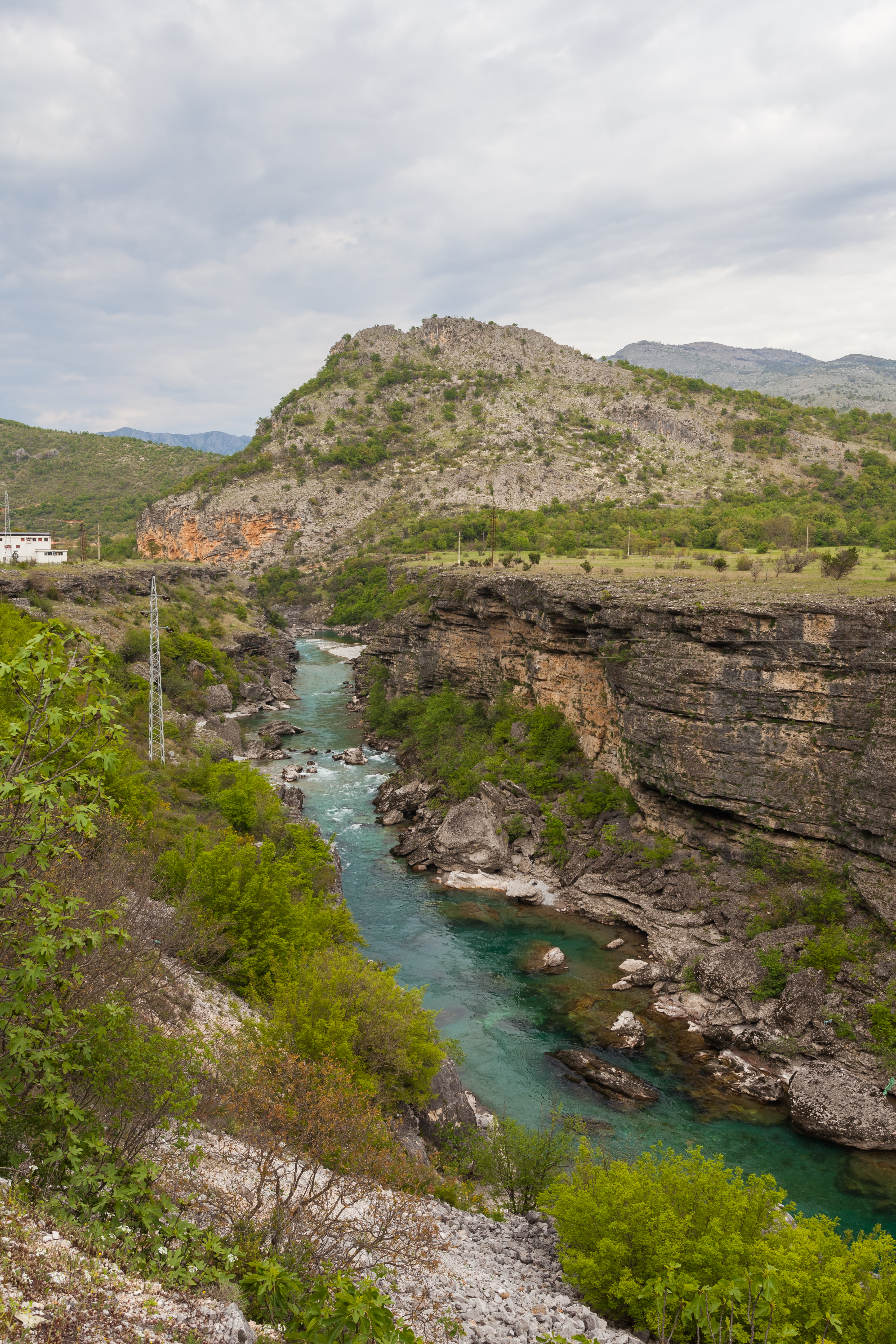 Moraca river, north of Podgorica, Montenegro